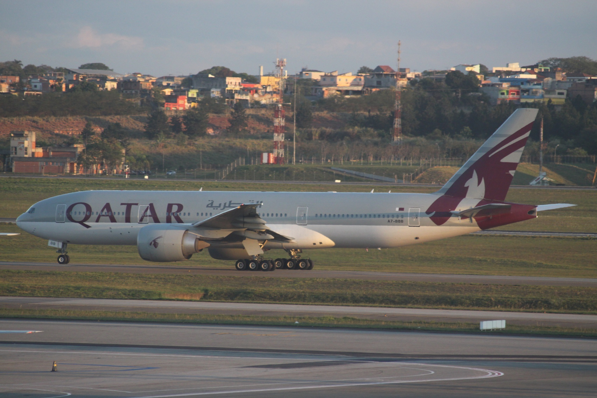 At Sao Paulo Guarulhos